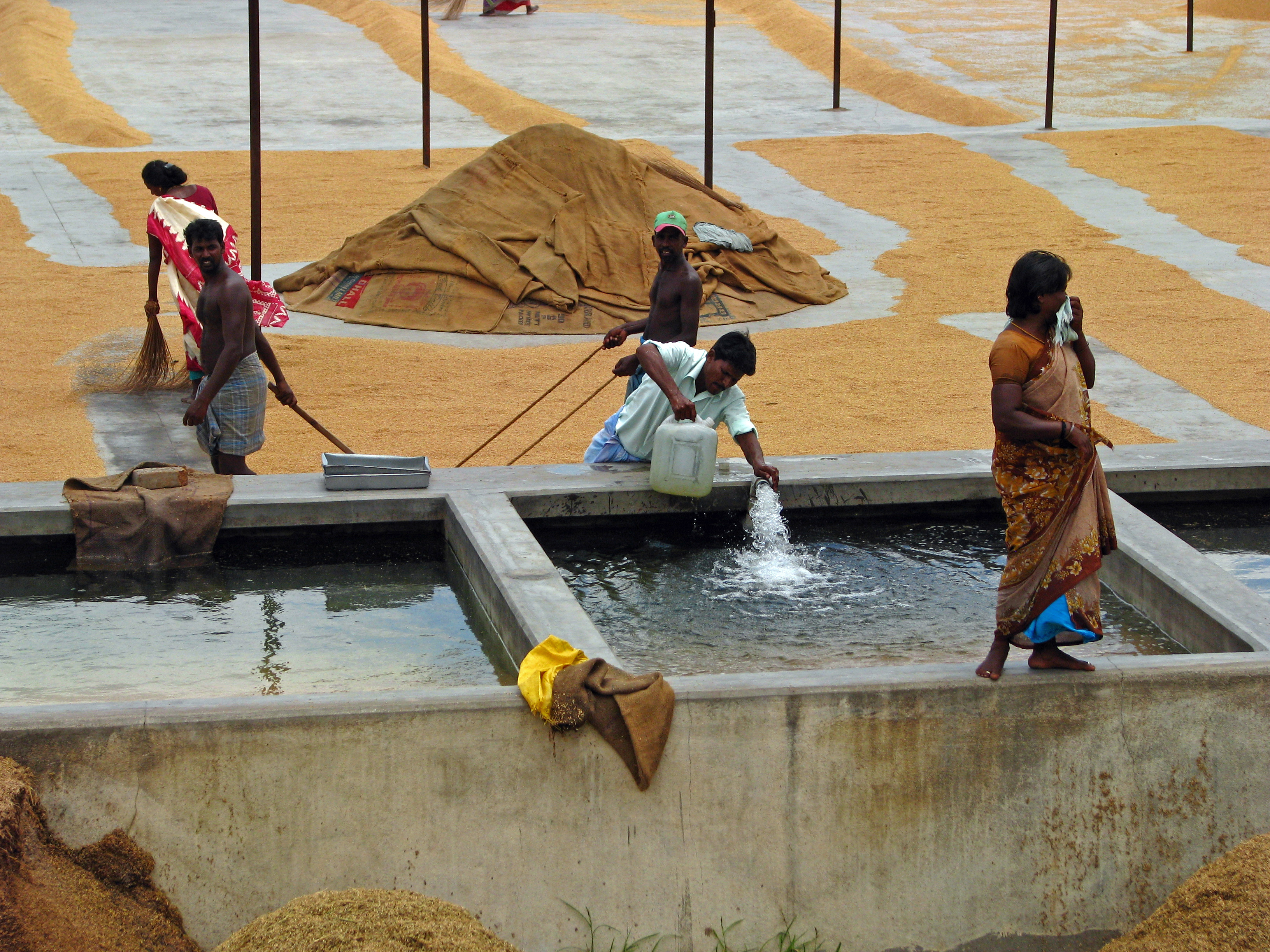 Where your rice comes from. Workers drying and husking rice at a mill outside Kanchipuram. This rice mill sits next door to Hand in Hand's residential school for former child labourers, a reminder of an industry and activity many of these children would have once been employed in (hopefully not this one specifically).